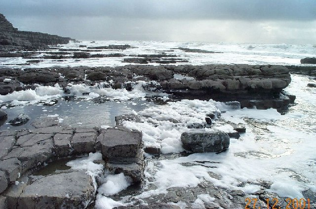 Nash Point. Heavy seas at Nash Point.